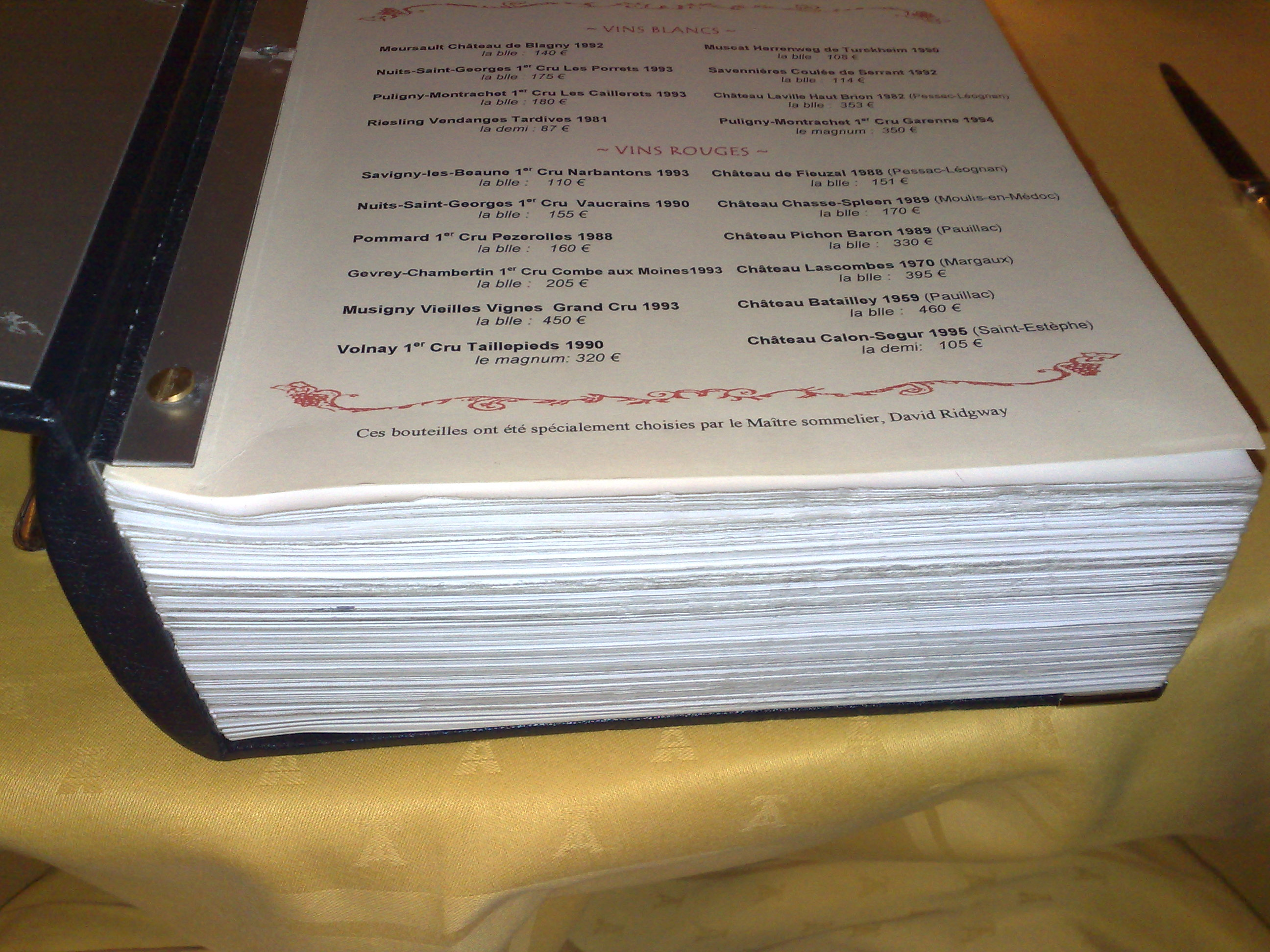 Tour d'argent Wine List - Paris, France